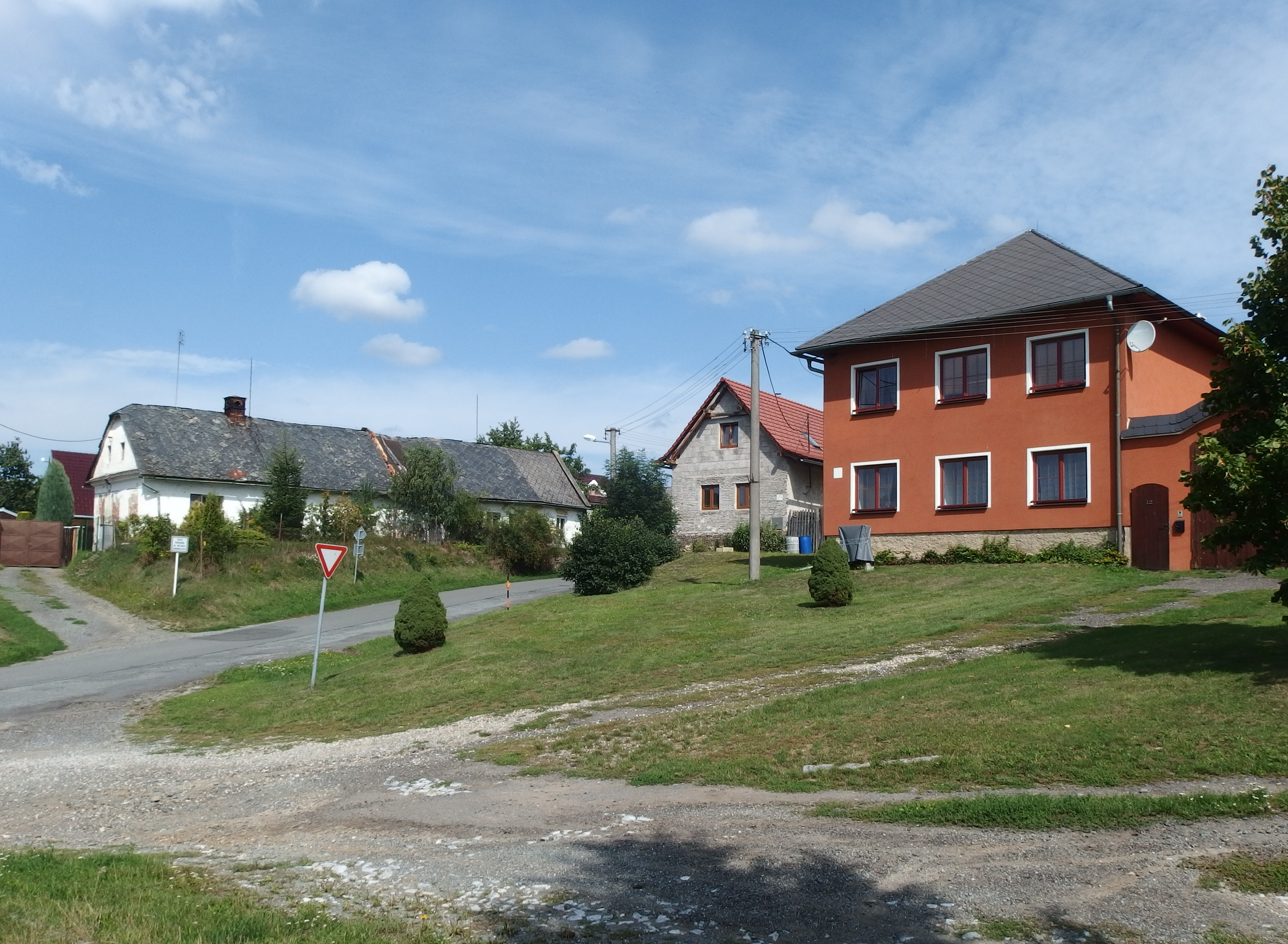 Líšnice, Šumperk District, Czechia.